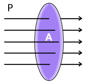 sound